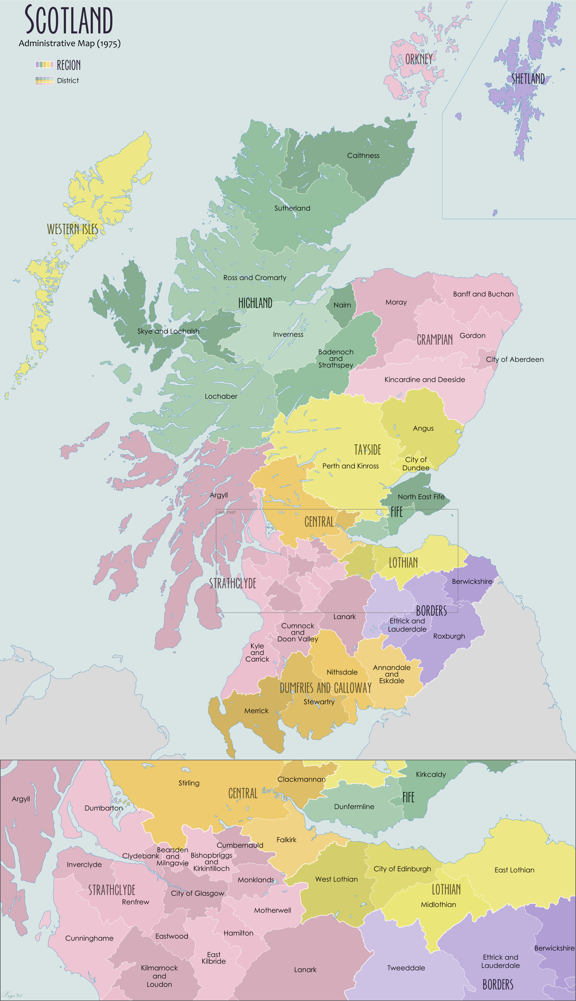 Administrative map of Scotland in 1974 showing the reforms of the Local Government Act (Scotland) 1973